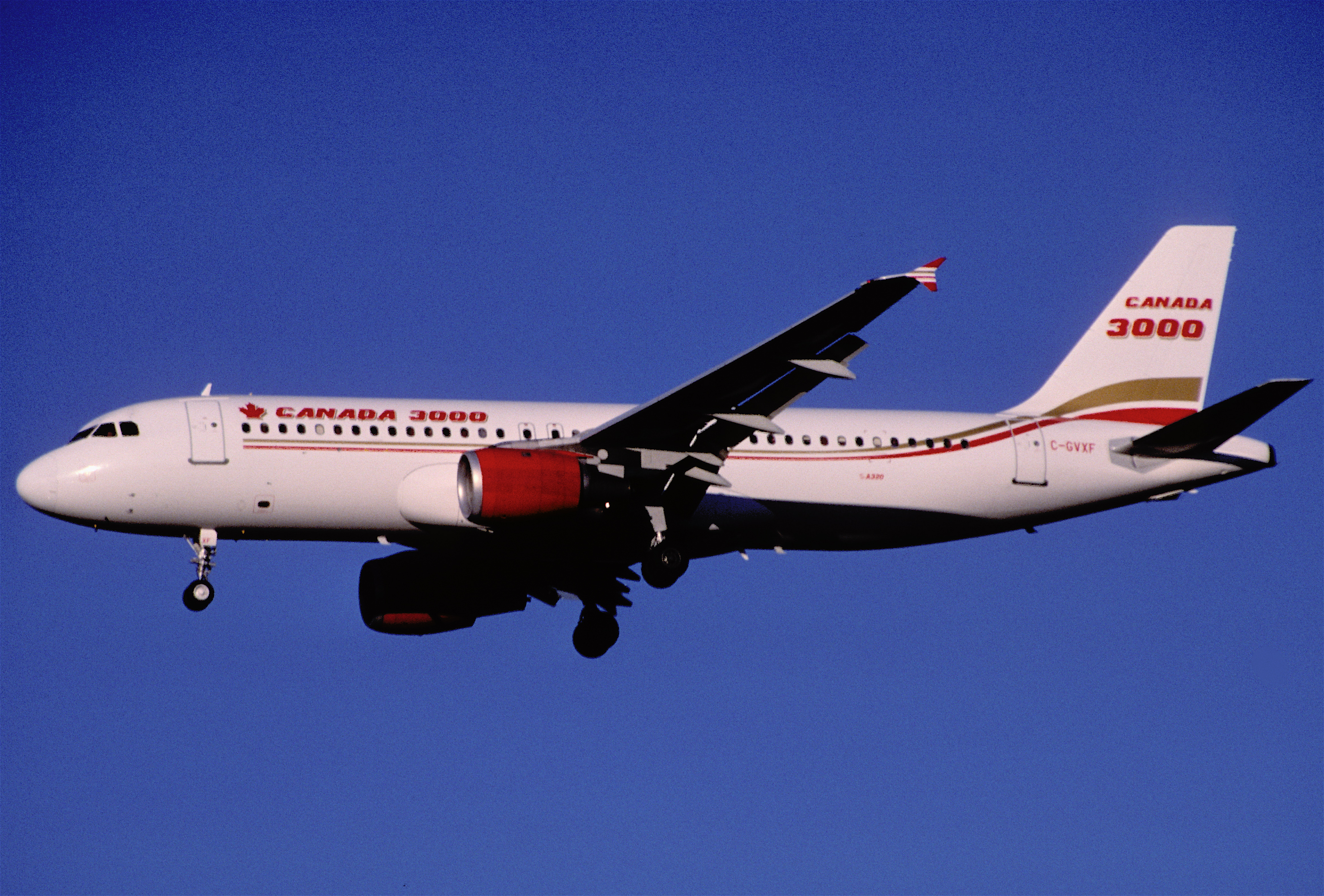 First flight: March 6,1997... 18/04/1997 Canada 3000 C-GVXF 19/12/2001 SkyService C-GJUQ 17/04/2005 Croatia Airlines 9A-CTM named Sibenik - stored 03/2010 27/06/2010 Safi Airways YA-TTC The same plane four years later: the same A320 nine years later